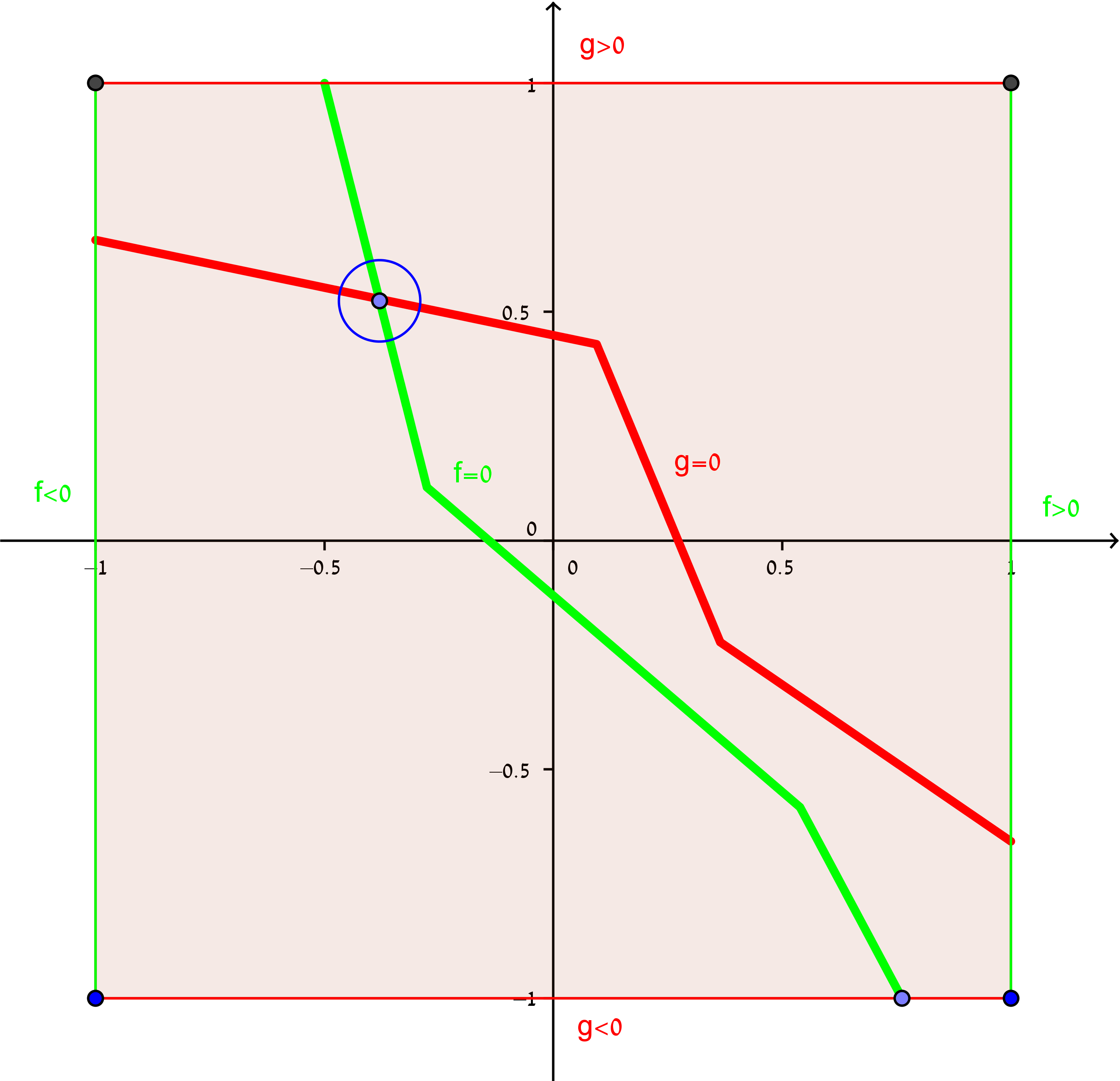 An illustration of the Poincare-Miranda theorem.